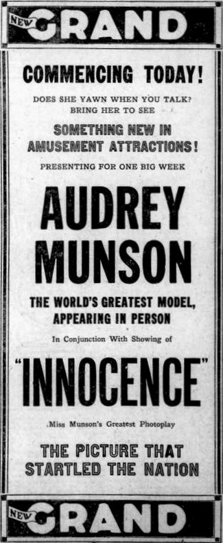 Newspaper advertisement for the film Innocence with Audrey Munson, on page 5 of the March 11, 1922 Duluth Herald. The ad notes Munson was appearing in person at the theater with the film. A review on that page states that the film was discussed in newspapers during the prior year, and has one scene with 150 women dancing in a dell. The IMDB does not list a film with this title for Munson, but may refer to a reissue of Purity (1916).